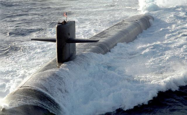 USS Maine (SSBN-741) Source